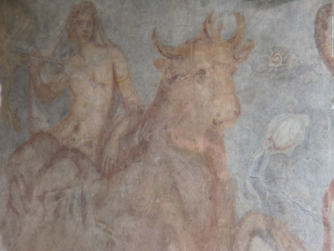 Ostia Antica, Terme de Faro, Wall painting; Europe and the bull